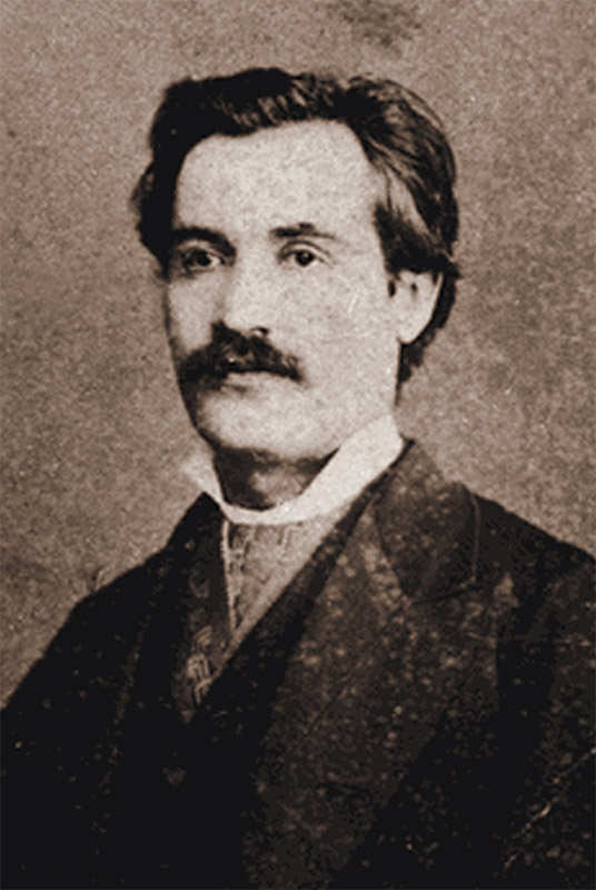 Portrait of Mihai Eminescu (1850 - 1889) - photograph by Franz Duschek, Bucharest, 1880